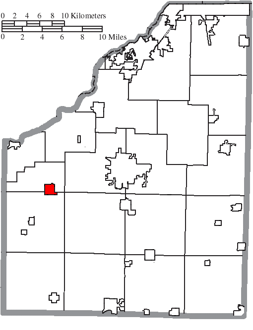 Map of the municipal and township boundaries of Wood County, Ohio, United States, as of the 2000 census, with the location of the village of Weston highlighted. Township borders are shown only in unincorporated areas in order to differentiate incorporated and unincorporated areas more clearly.